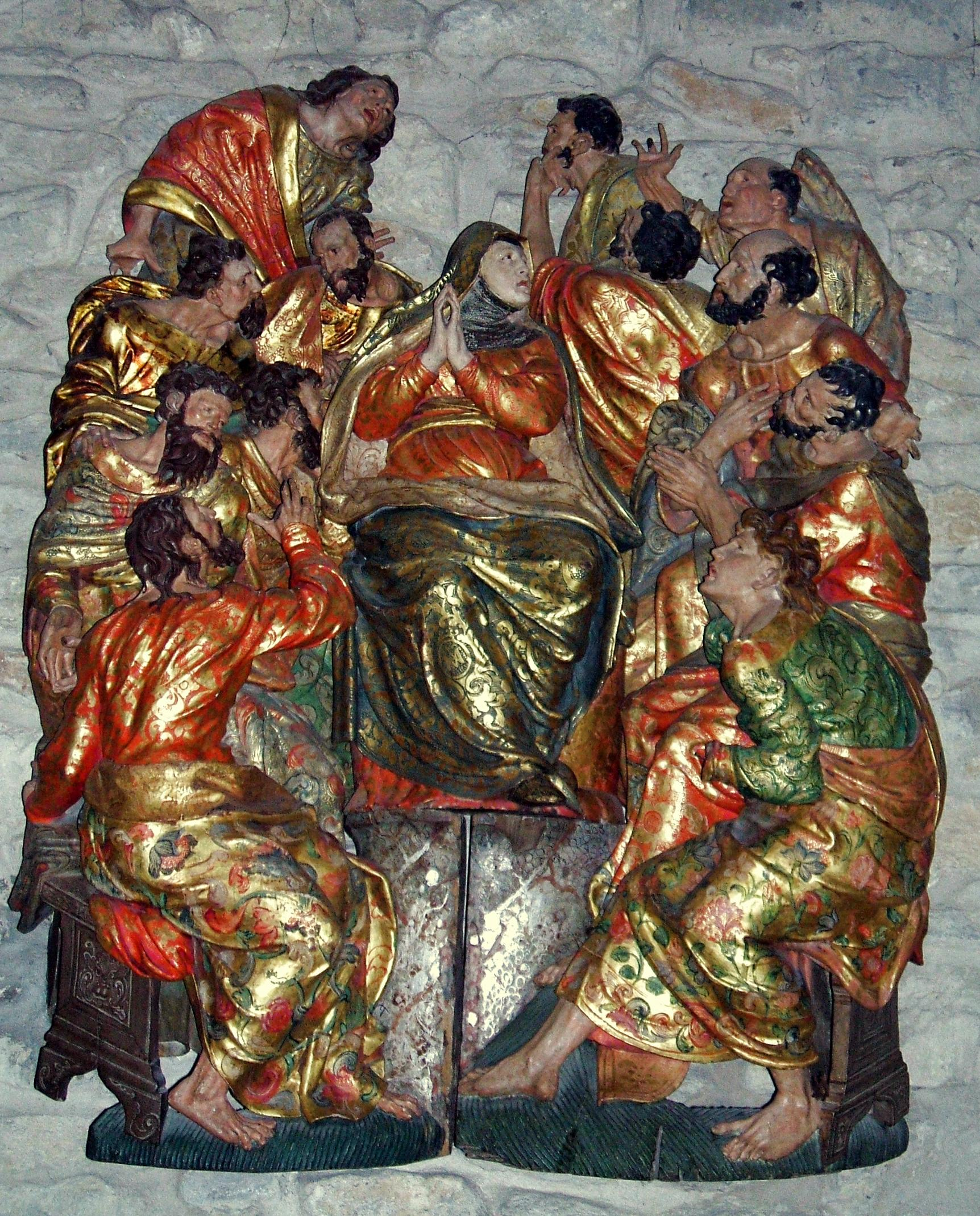 Relieve de Pentecostés, trabajo manierista del siglo XVI, en la Basílica de San Prudencio de Armentia, en Vitoria-Gasteiz (Álava, País Vasco, España)